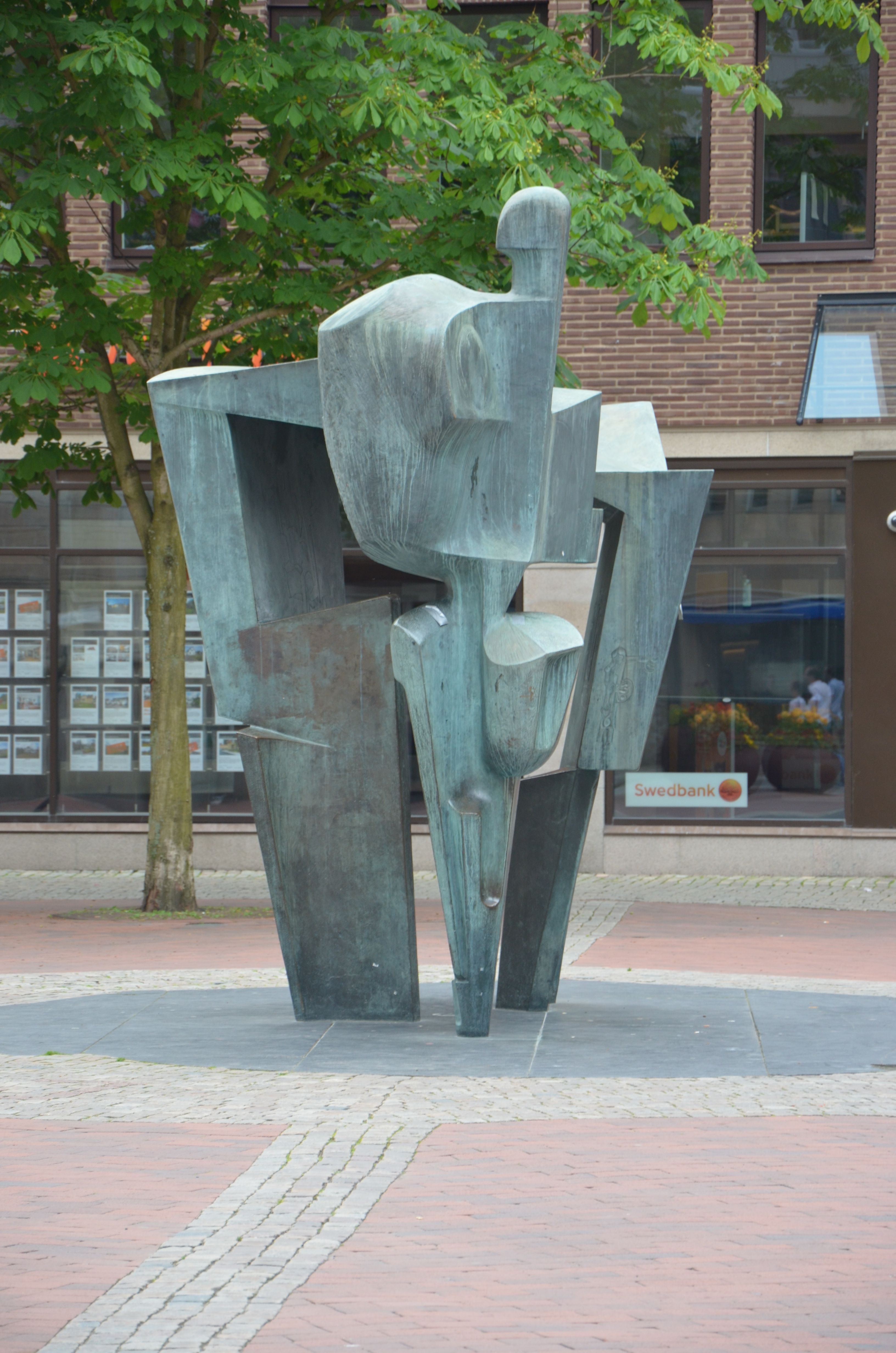 Hoppets vision by Rune Karlzon, Hoppets torg, Jönköping, Sweden, 1967, bronze